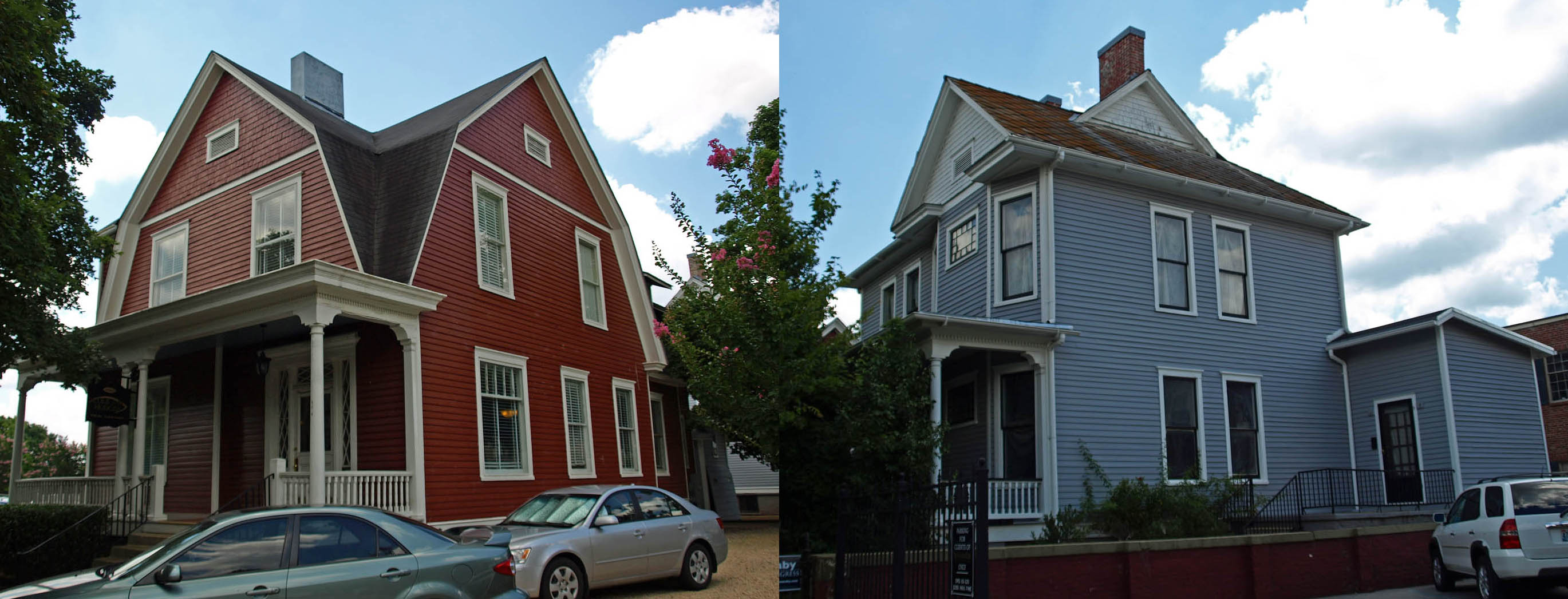 The Hundley Rental Houses in Huntsville, Alabama, listed on the National Register of Historic Places.